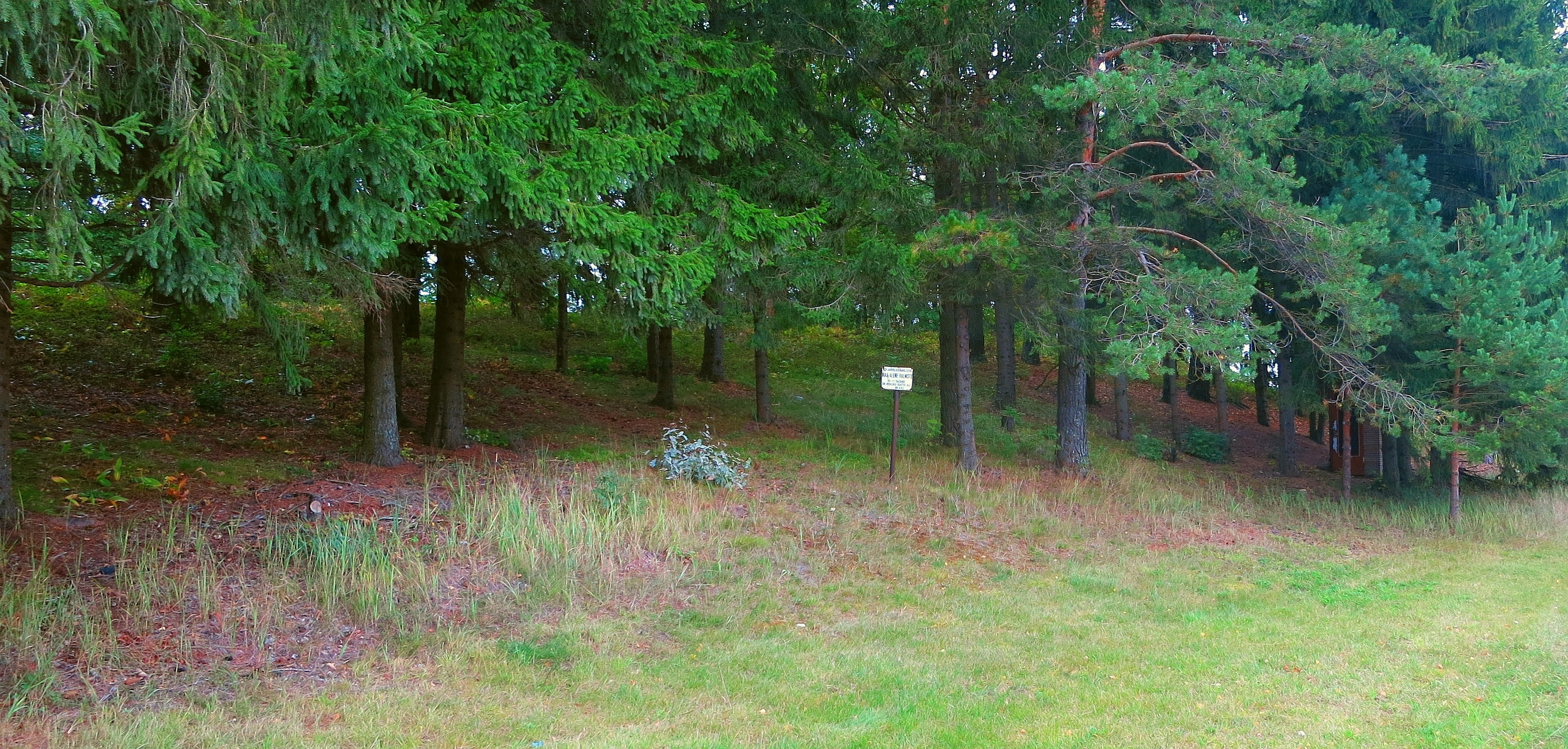 Ancient cemetery in Rannapungerja, view from south (Ida-Viru County, Estonia)